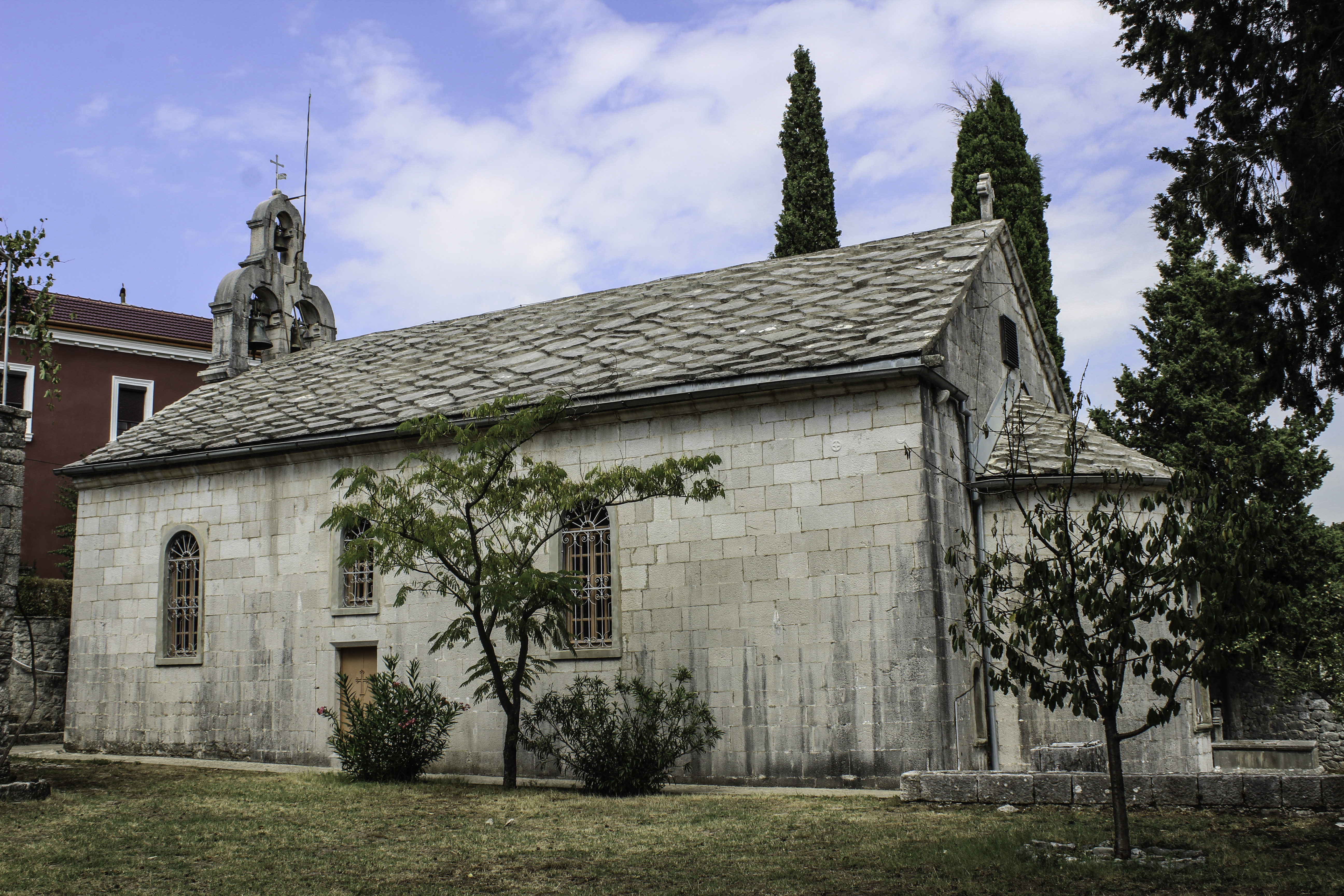 This image was uploaded as part of Trace of Soul 2018. Monastery Duži (Trebinje).